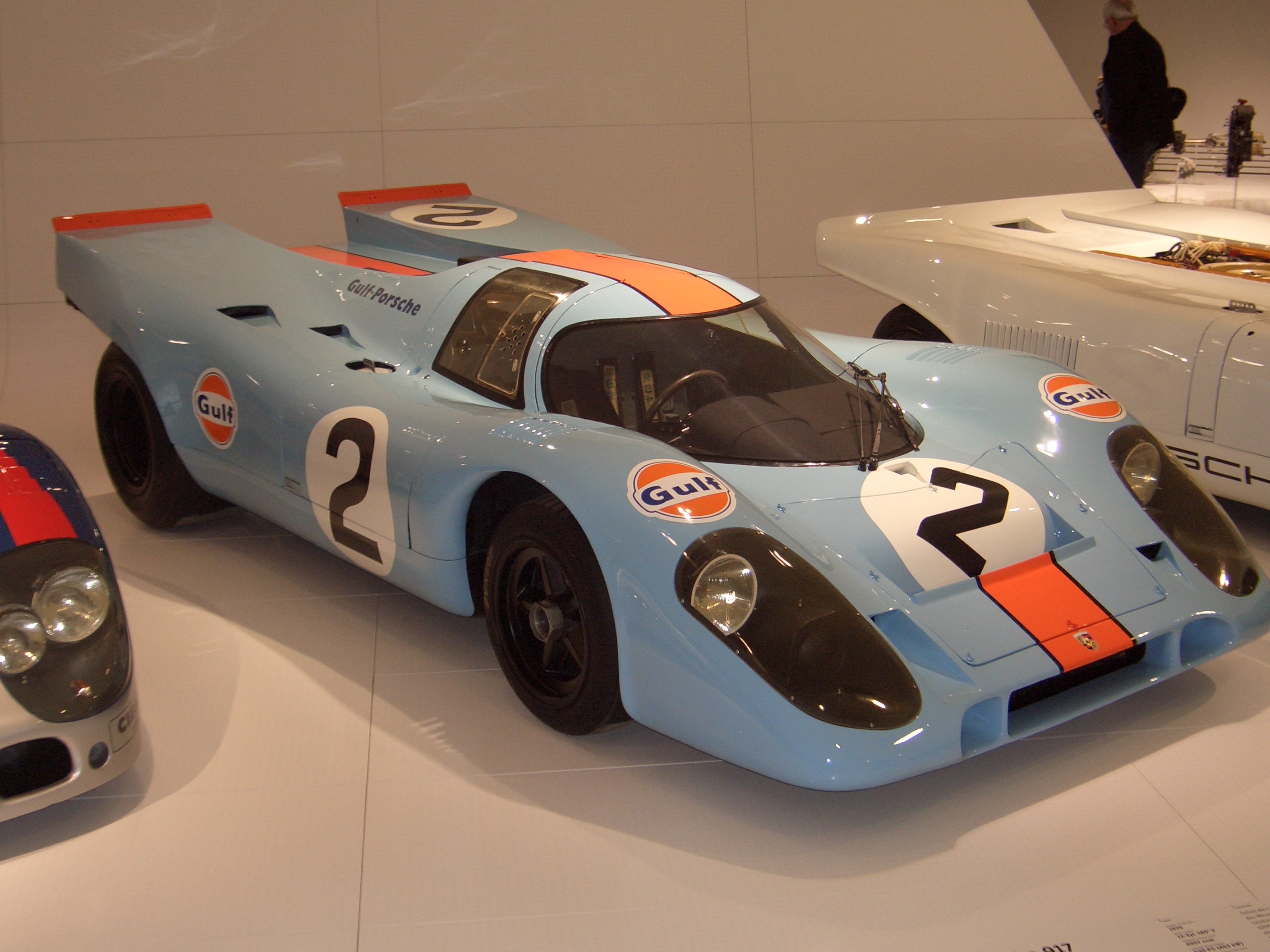 see filename for despcription - seen at PORSCHE MUSEUM in Stuttgart, Germany